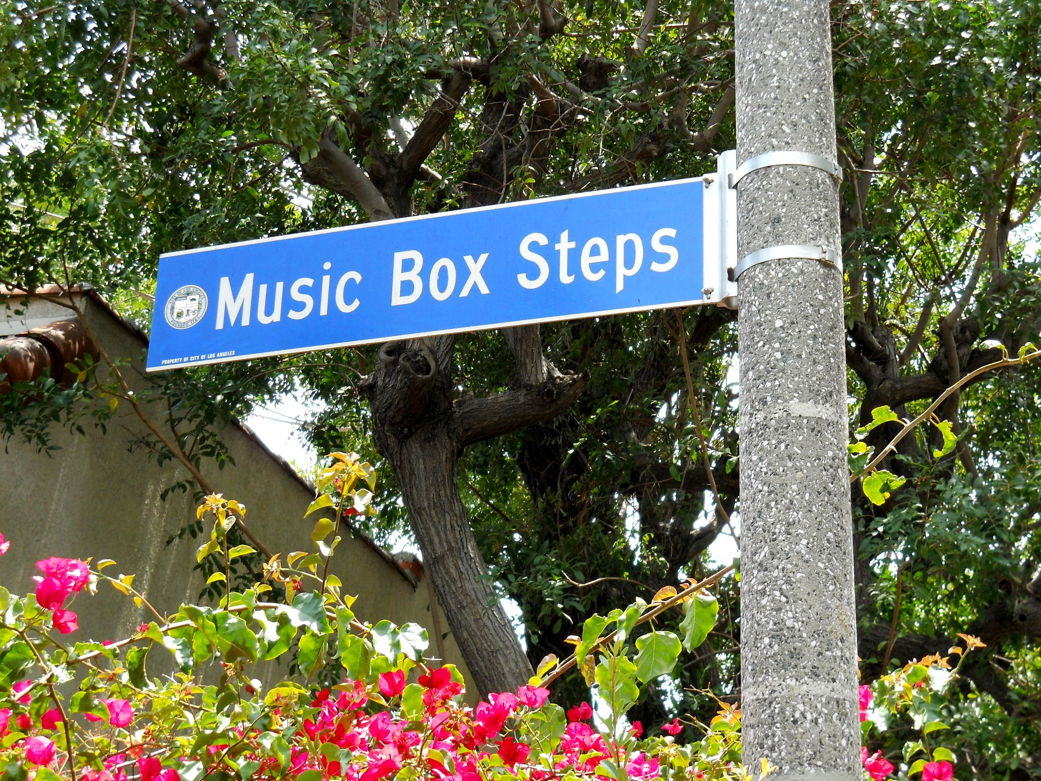 Sign in Silver Lake section of Los Angeles marking the location of the filming of Laurel and Hardy's classic short film "The Music Box" (1932). Top of hill, at Descanso Drive.